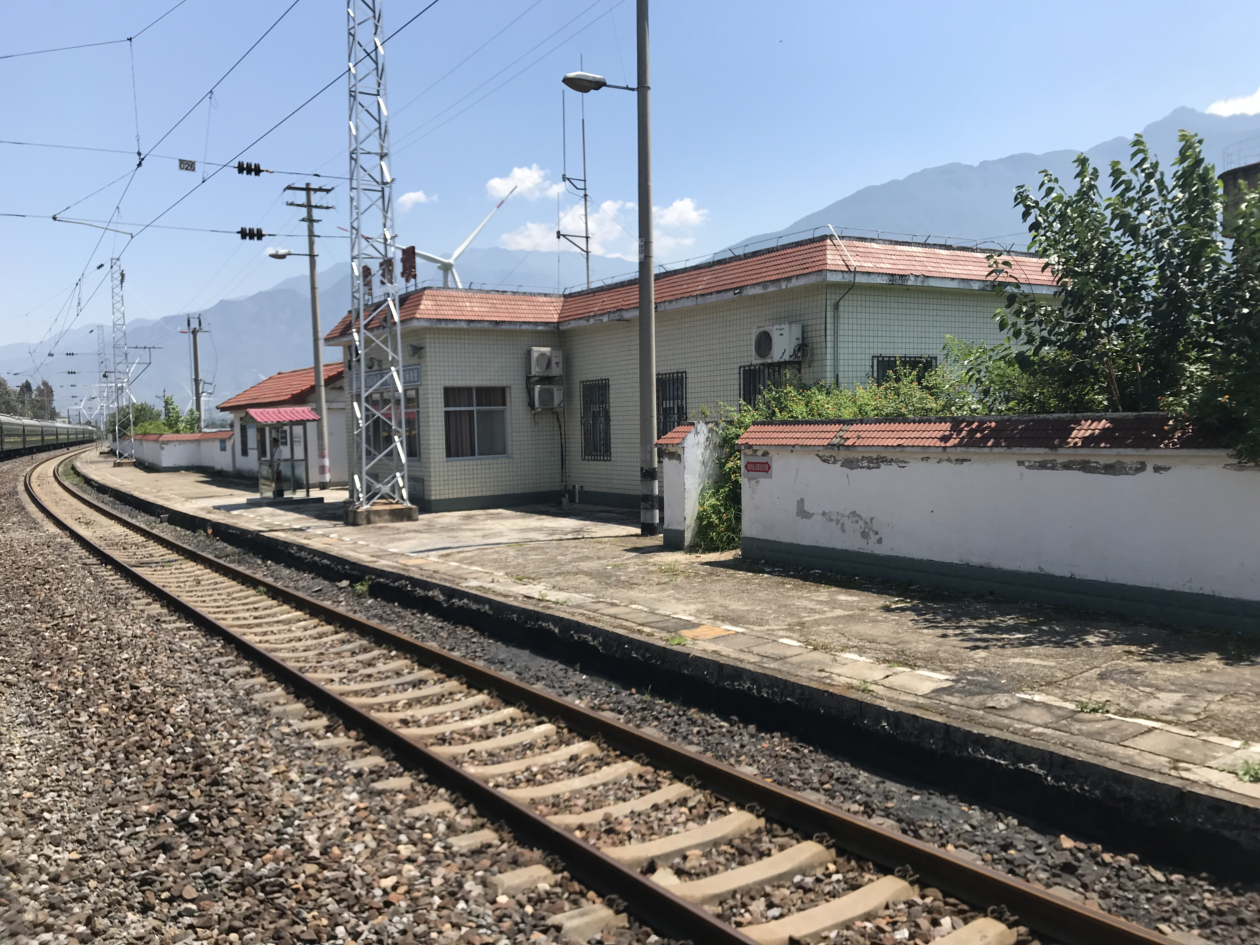 201908 Station Building of Huangjiaba